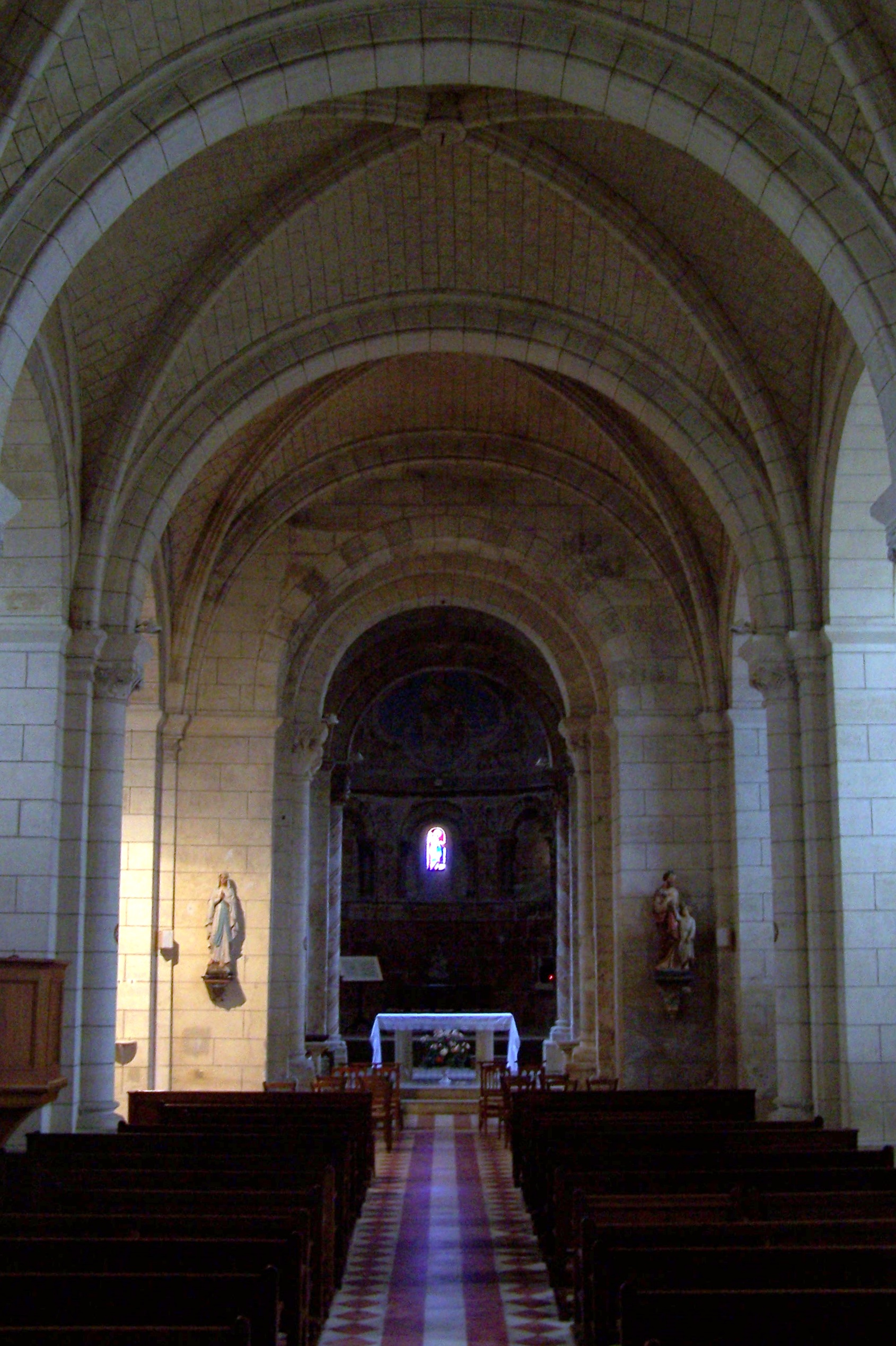 Church of Aillas (Gironde, France)